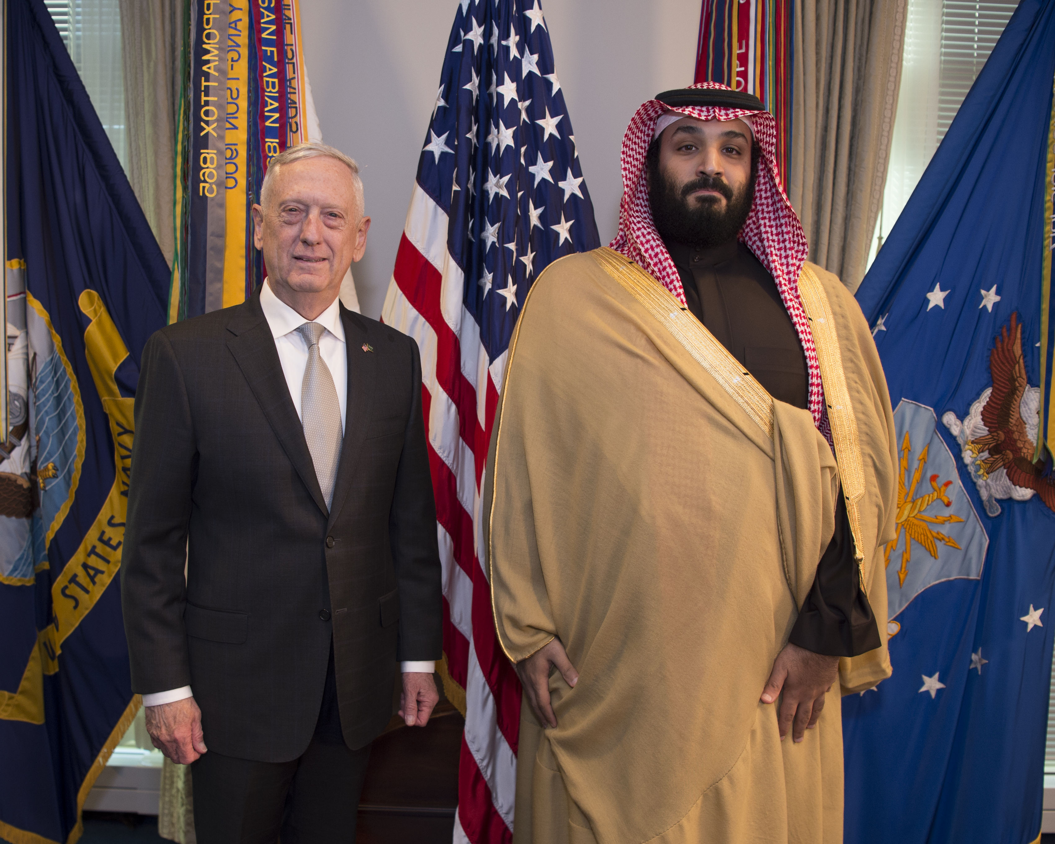 Defense Secretary James N. Mattis meets with Saudi Arabia's First Deputy Prime Minister and Minister of Defense, Crown Prince Mohammed bin Salman bin Abdulaziz at the Pentagon in Washington D.C.